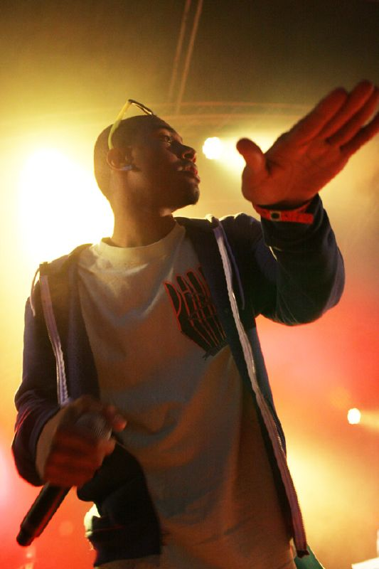 The Cool Kids at the Eurockéennes 2008